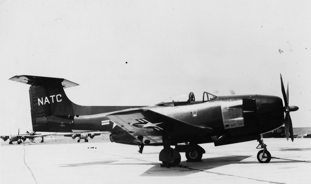 PictionID:41545762 - Title:Ray Wagner Collection Image - Catalog:16_000512 Curtiss XF15C-1 05215 - Filename:16_000512 Curtiss XF15C-1 05215.tif - Image from the Ray Wagner Collection. Ray Wagner was Archivist at the San Diego Air and Space Museum for several years and is an author of several books on aviation --- ---Please Tag these images so that the information can be permanently stored with the digital file.---Repository: San Diego Air and Space Museum